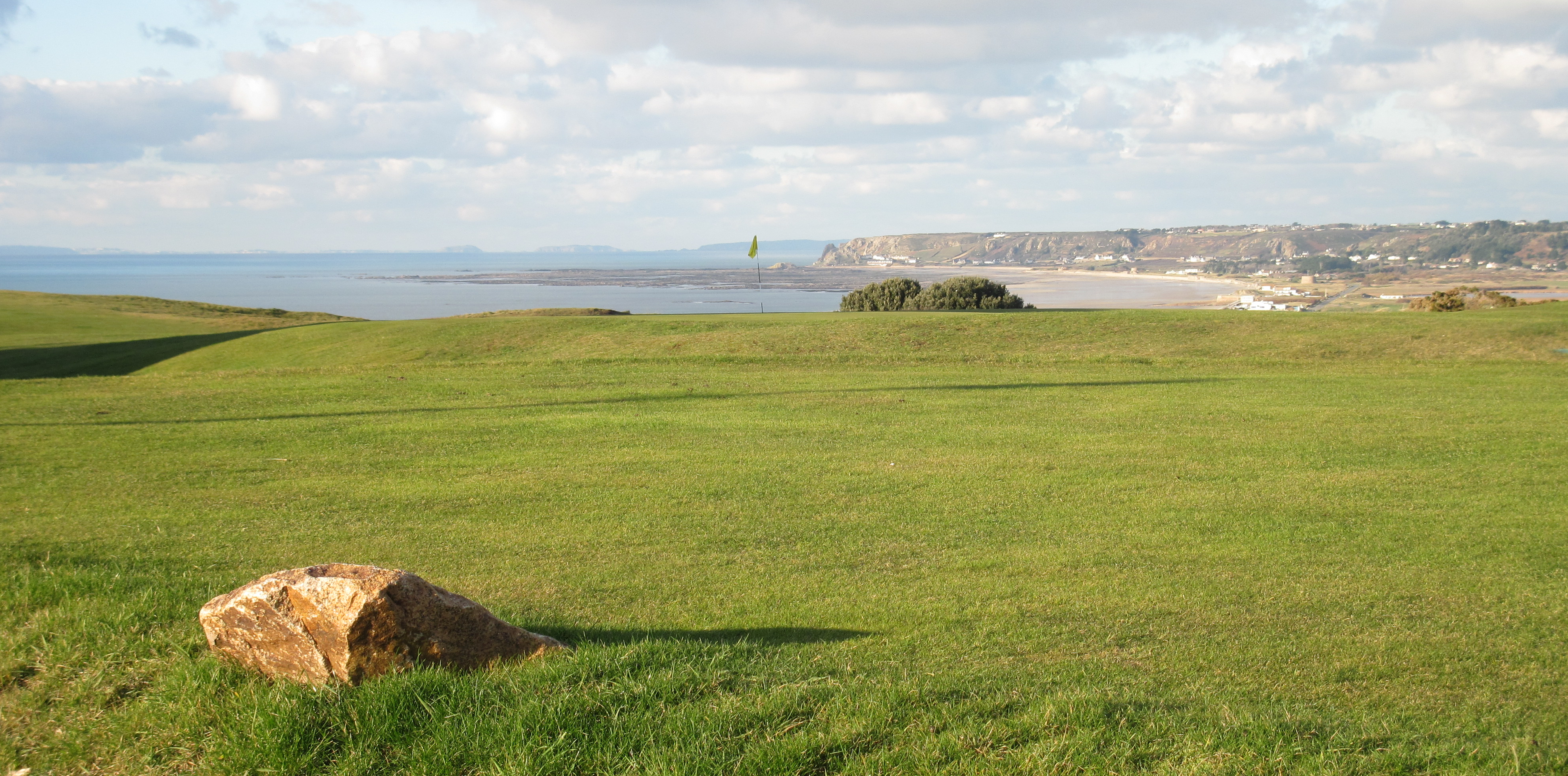 La Moye Golf Club, overlooking Saint Ouen's Bay, Jersey. Jethou, Herm and Sark in background.